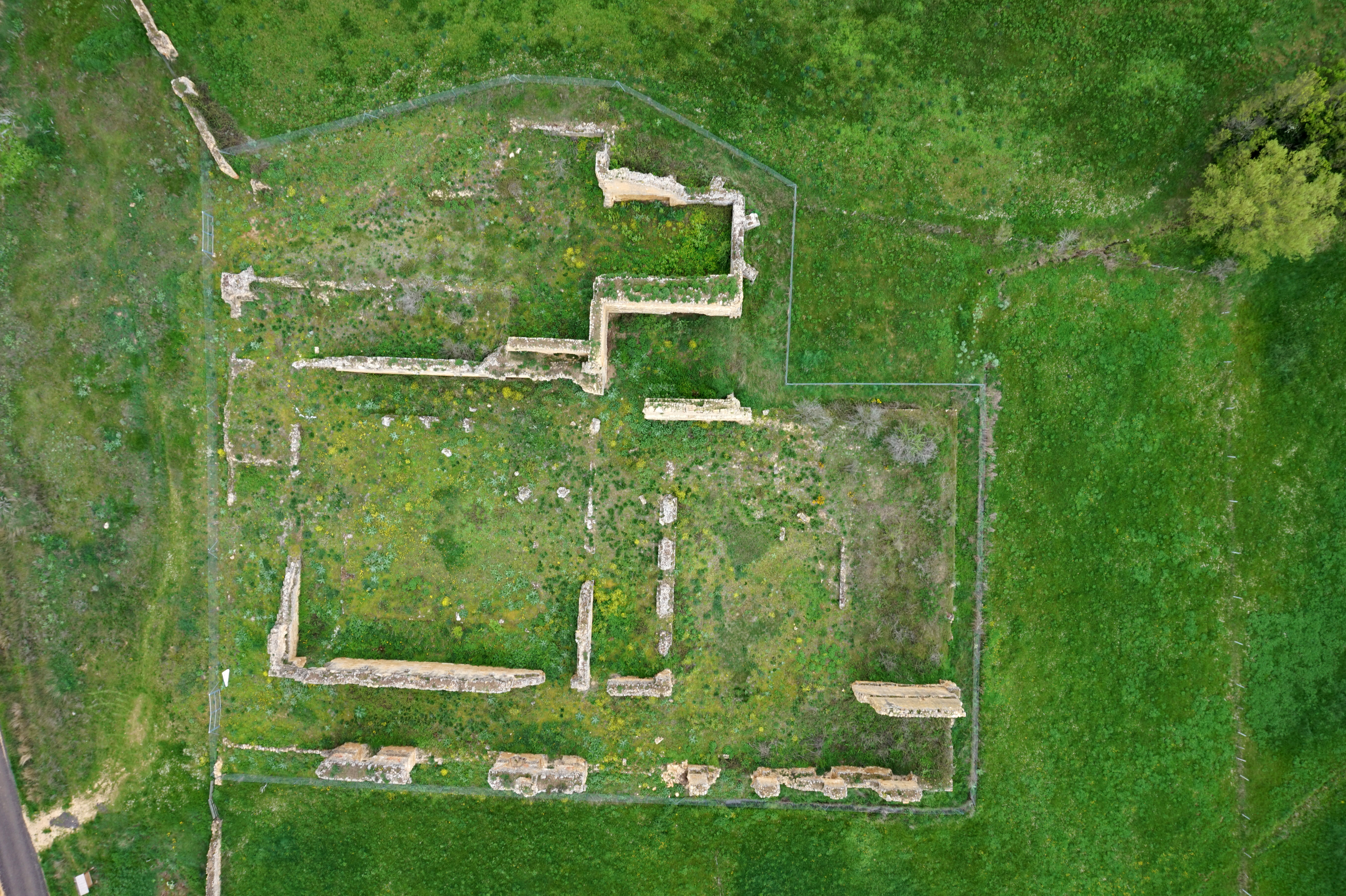 Aerial view of monastery of Saint Peter of Eslonza ruins in Santa Olaja de Eslonza, Gradefes (León, Spain). Picture taken by Smart Drone with a drone.